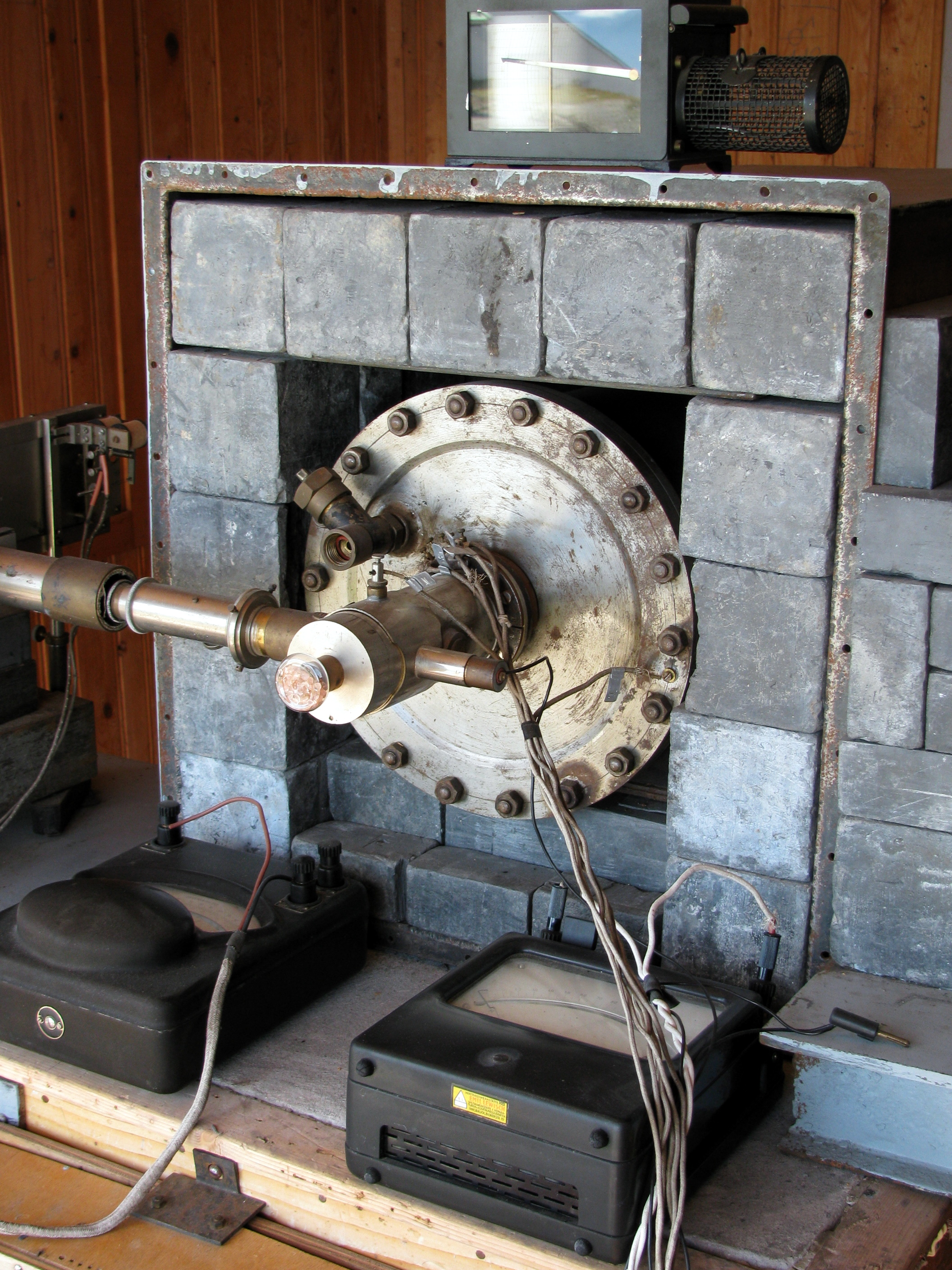 Steinke Apperatus, an Ionization Chamber, located at the Hafelekar Cosmic Ray Laboratory, installed 1931.